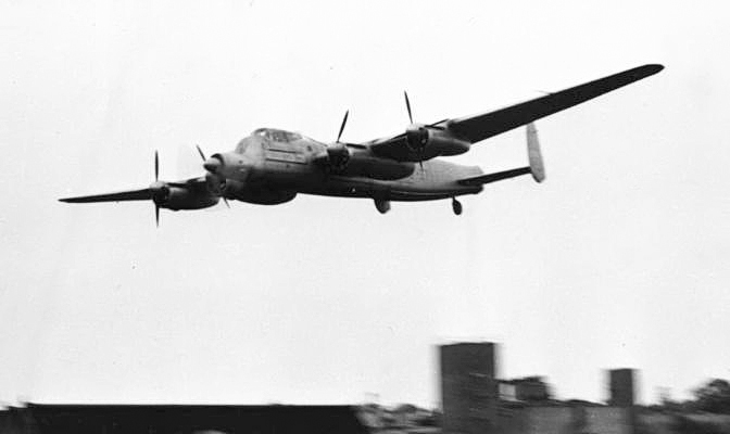 Rolls-Royce Tyne testbed Avro Lincoln G-37-1 at Farnborough flying on only the nose Tyne - the four Merlins are shut down and props feathered